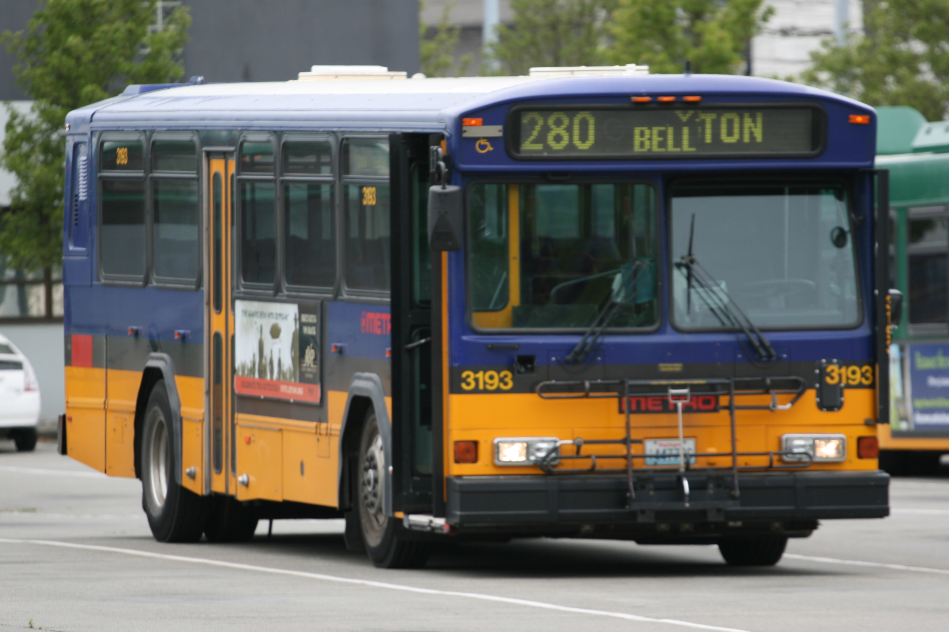 King County Metro Transit 35' Gillig PHANTOM #3193 parked at Central Base.